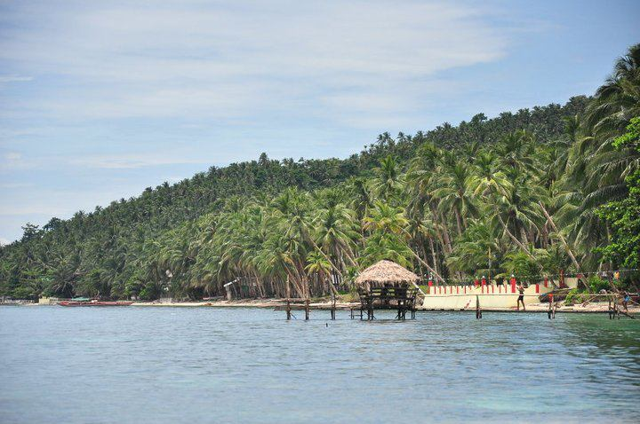 the island